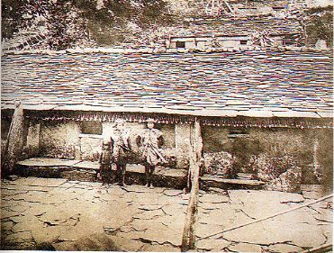 Slabstone House by Paiwan (One Ethnic Group among the Taiwanese Aborigines)/ by Japanese Anthropologist Mori Ushinosuke / Date Unknow/ ca. Prior to 1945Twi: 排灣族來義社頭目家的石板屋建築，其基礎結構和卑南遺址的建築有部分相似/ 森丑之助